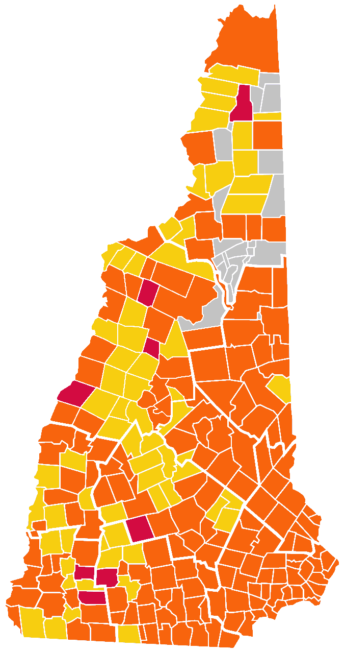 A map of New Hampshire municipalities, color-coded to the results of the 2012 Republican Party New Hampshire presidential primaries, which were held on January 10, 2012. Former Massachusetts Governor Mitt Romney won a comfortable victory, after being defeated by the eventual Republican presidential nominee, Arizona senator John McCain, four years prior. Texas representative Ron Paul, who had also competed in 2008, placed second with an impressive share of delegates, mostly winning the vote in rural New Hampshire. However, Romney's support in urban areas such as Manchester and Concord ultimately secured the majority of delegates for Romney. Former Governor of Utah, Jon Huntsman, Jr., also carried a number of townships across the state. The winner of the Iowa caucuses, Pennsylvania senator Rick Santorum, was not able to capatalize on his success in Iowa, eventually resulting in no gains for Santorum in New Hampshire. Legend Mitt Romney Ron Paul Jon Huntsman Not reported